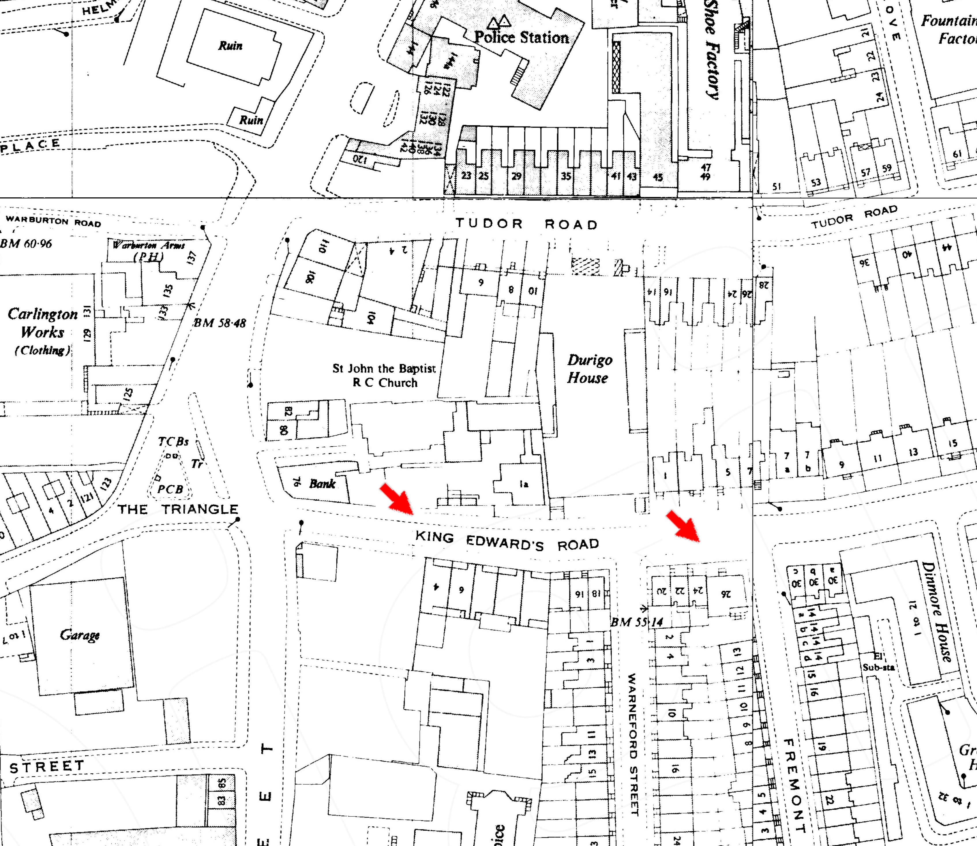 Ayahs' Home King Edward's Street, Hackney on 1948 Ordnance Survey map